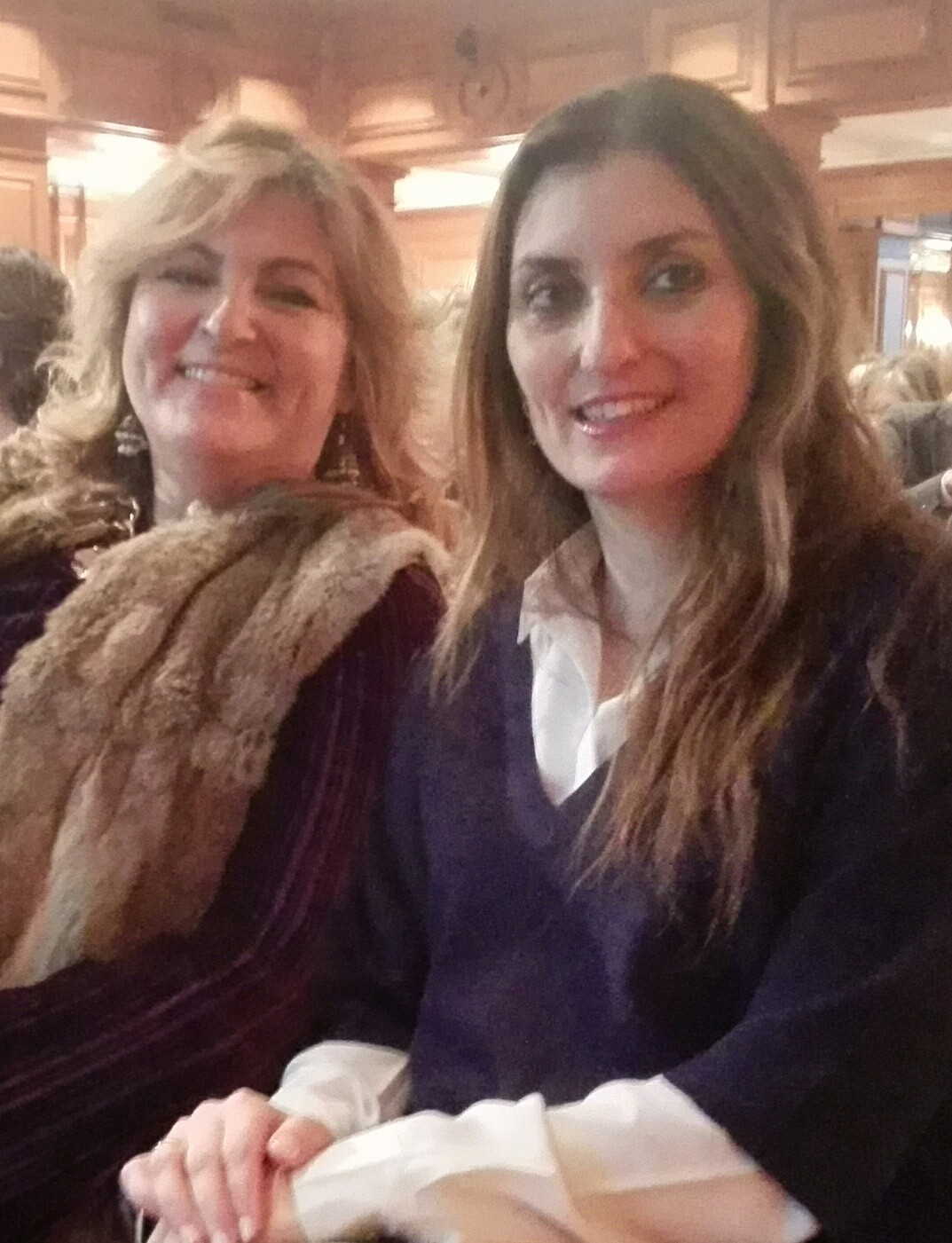 Beatriz Carrillo and Sara Gimenez, in the act of handing over the recognition of Mujeres Referentes 2018 of the Instituto de la Mujer, for their struggle for the rights of Roma women and their defense of diversity. Madrid, March 7th, 2018